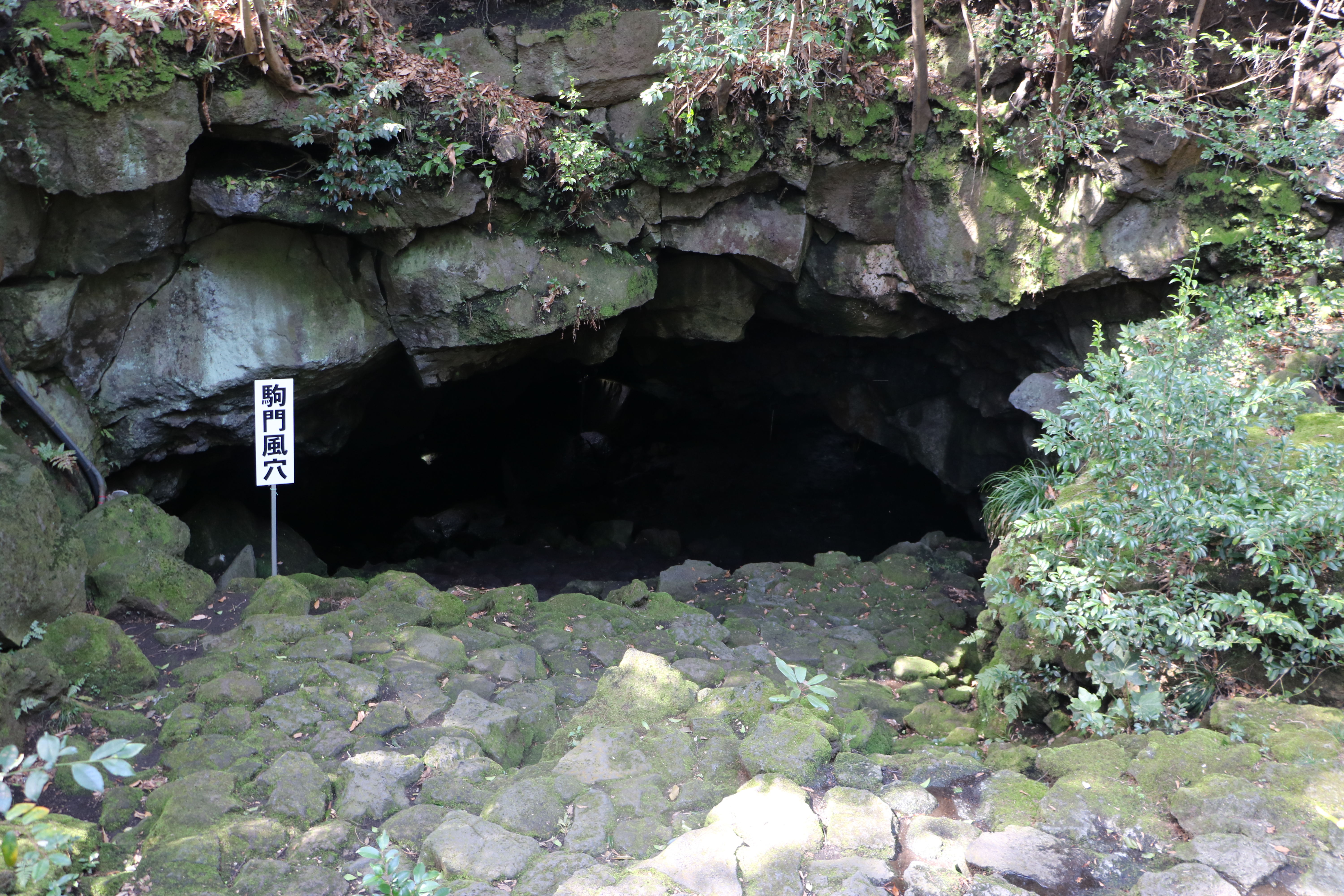 Komakado Kazaana Cave entrance.